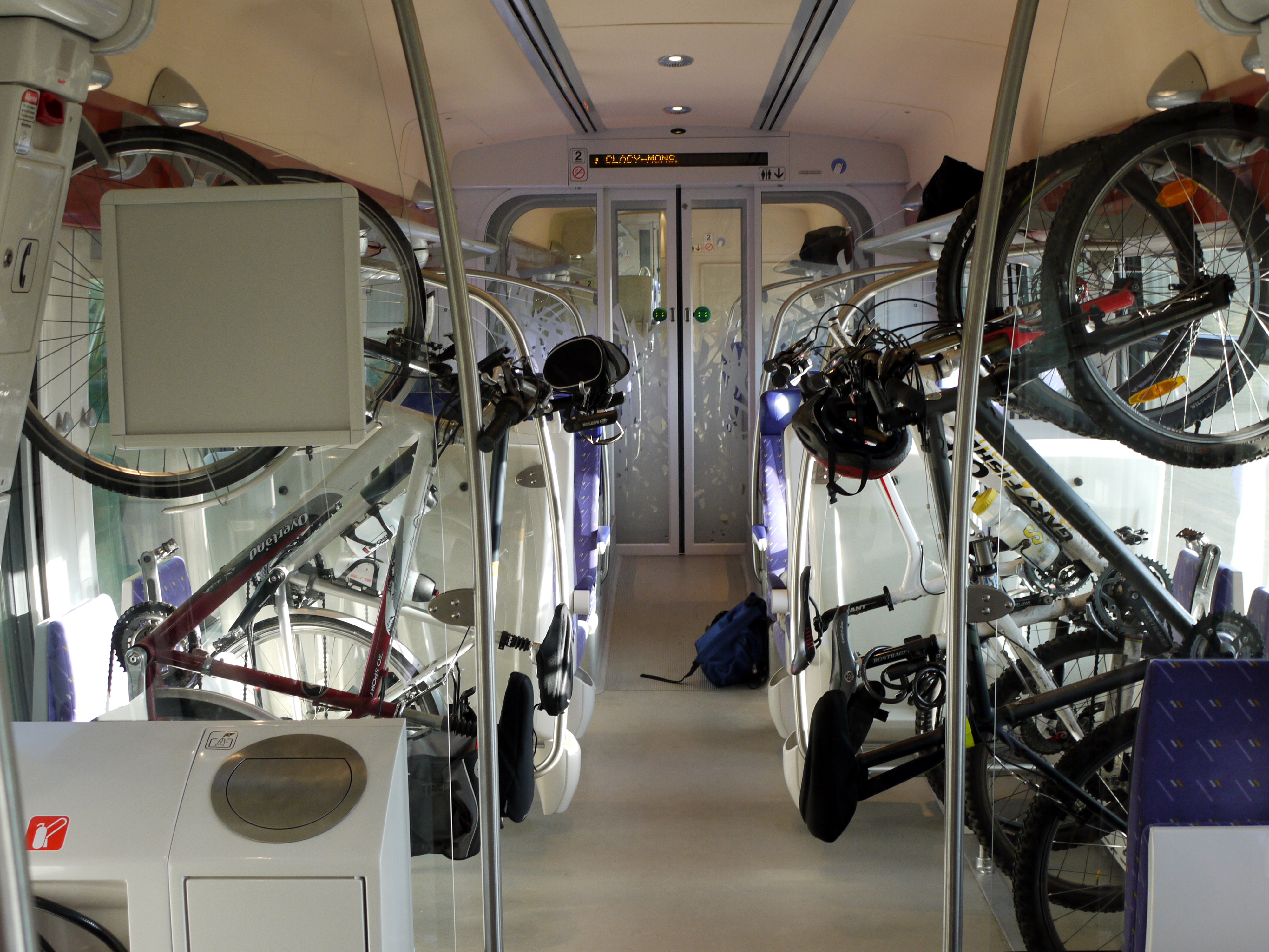 Interior of a Regional Diesel multiple unit on the Line Paris-Laon, France